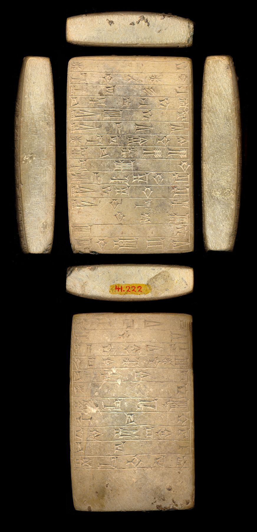 This tablet is plano-convex, with a cuneiform inscription of Sin-iddinam on two faces.